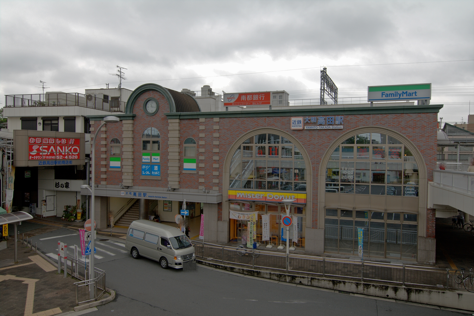 Yamato-Takada Station on Kintetsu Osaka Line